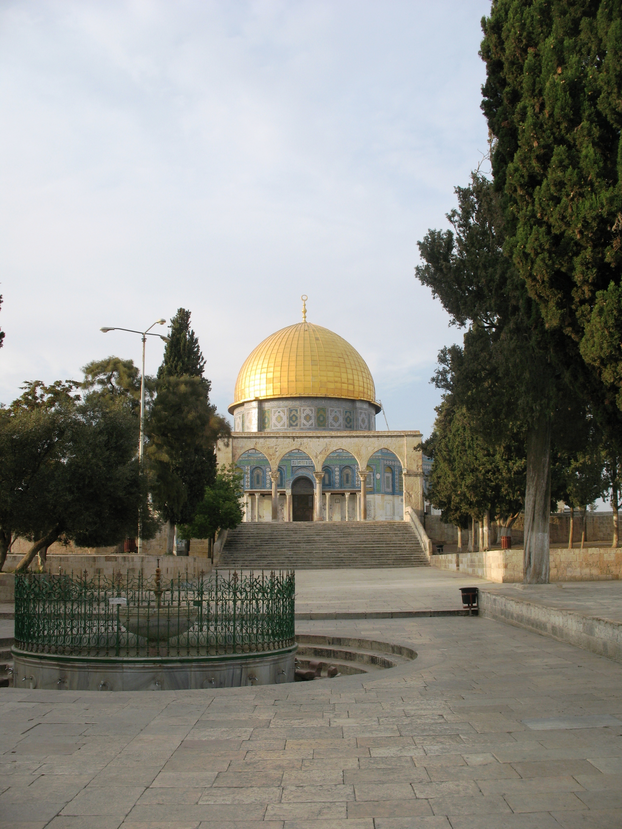 Old city and AlAqsa Mosque in Jerusalem - Occupied Palestine